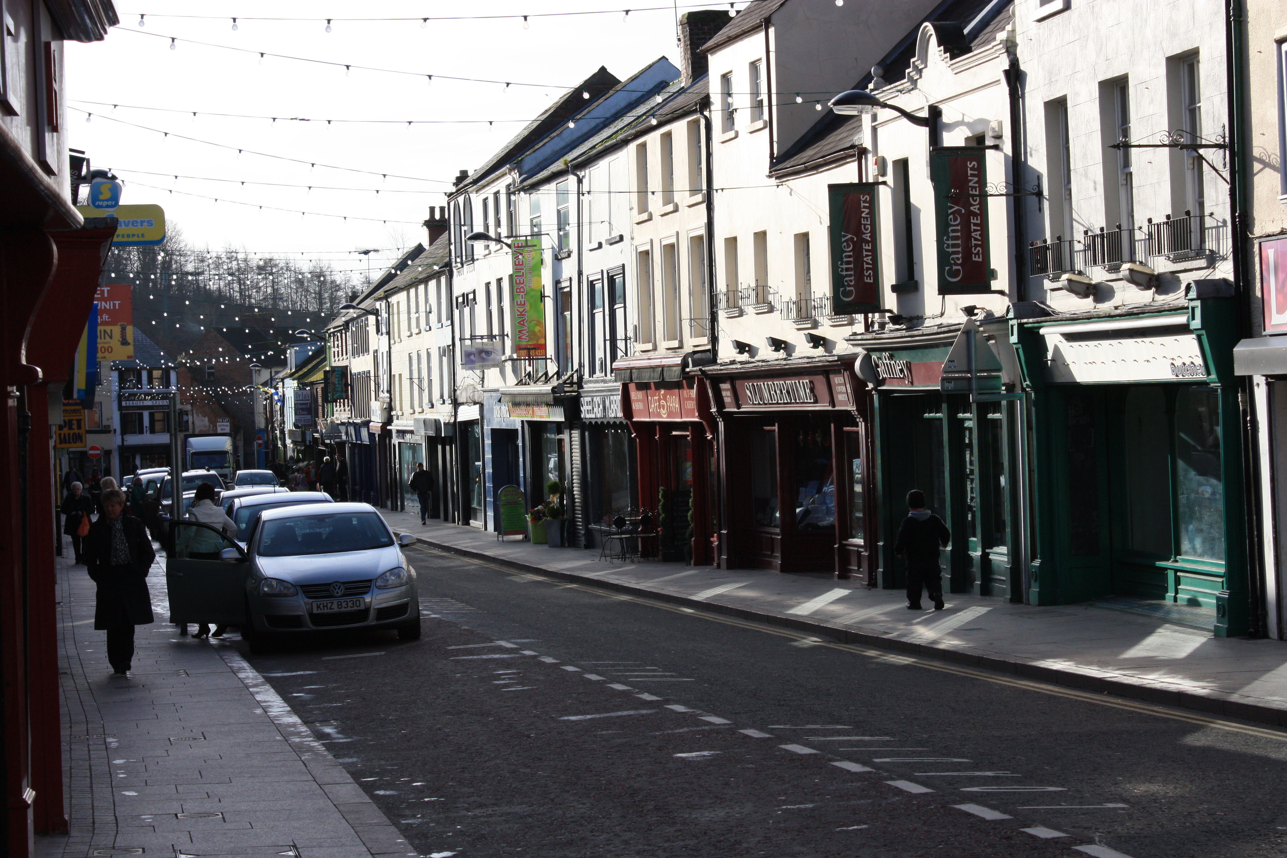 Thomas Street (viewed from the junction with Scotch Street), Armagh, County Armagh, Northern Ireland, November 2009